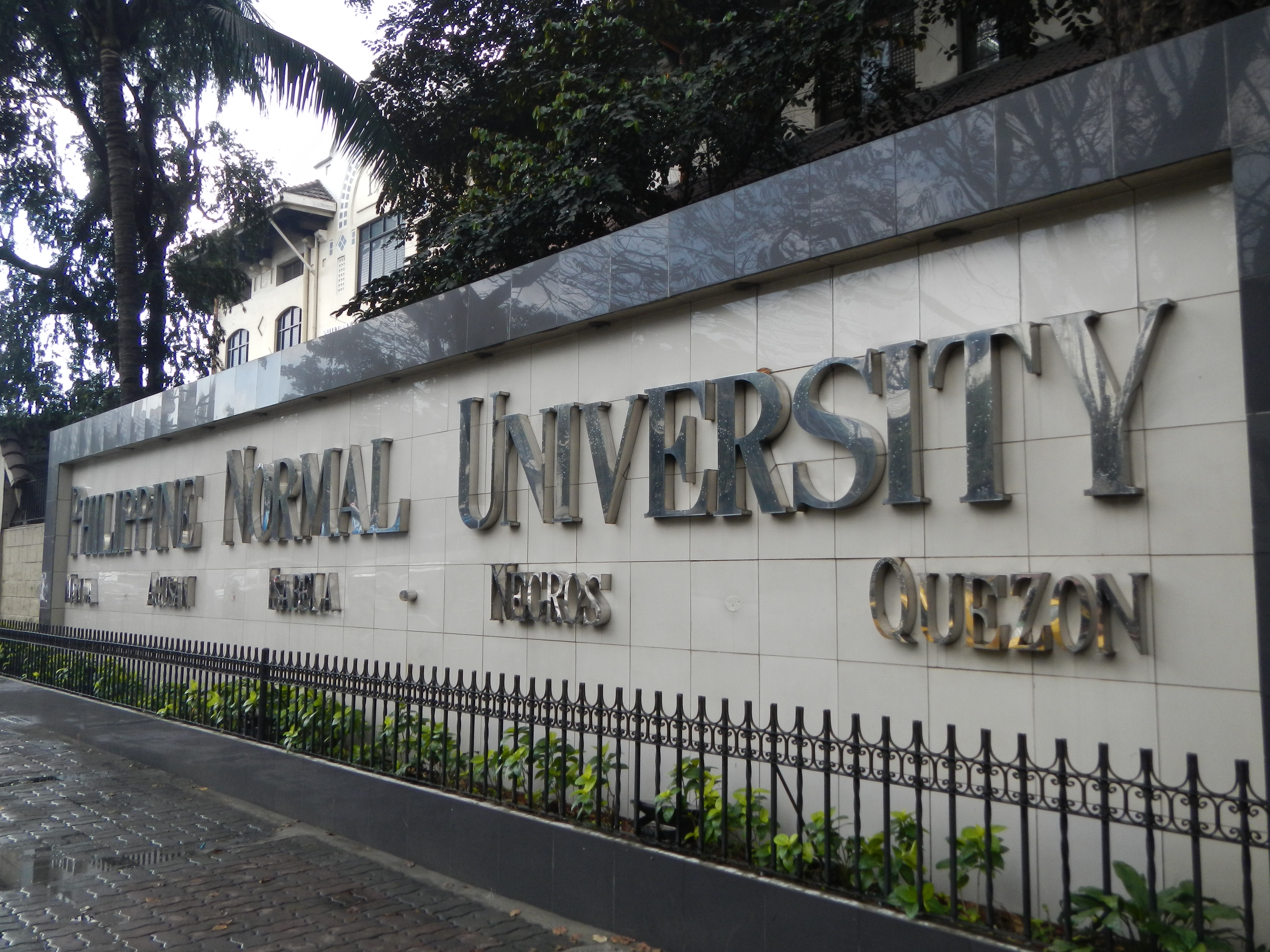 Upload Wizard photos of - a) Manila City Hall, beside b) Philippine Normal University of 1901, and in front of it is the c) Technological University of the Philippines.